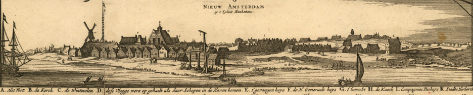 Nicholaes Visscher: Novi Belgii Novæque Angliæ, Amsterdam 1685 (Detail) The inscription reads in old DutchA) The FortB) The ChurchC) The WindmillD) The flag that goes up when new ships arriveE) PrisonF) General's HouseG) Court HouseH) De Kaeck (?)I) Company's House (?)J) Stades Herberck (?)